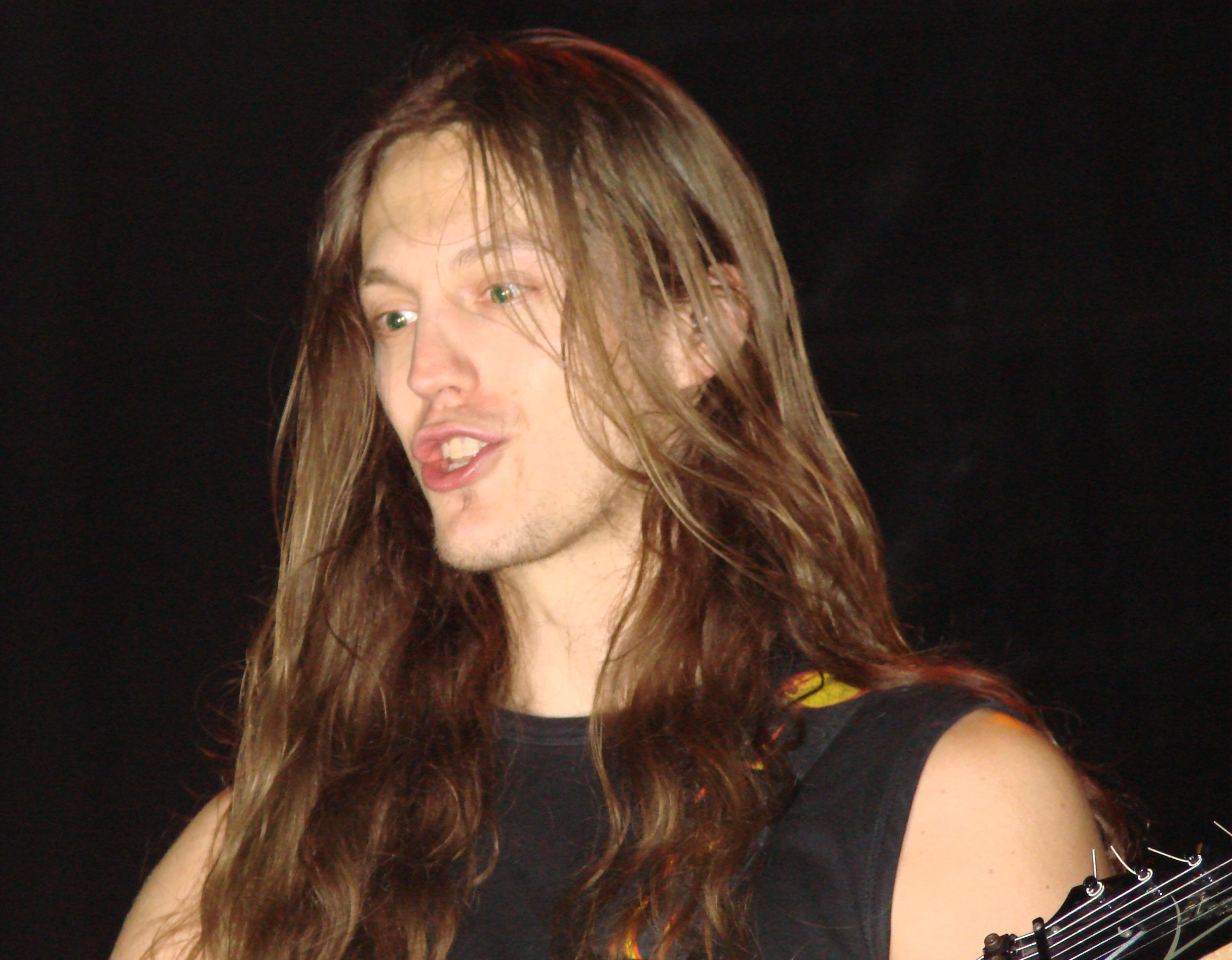 Mark Jansen, guitarist and vocalist of the symphonic metal band Epica, during a concert done in ND Ateneo theatre in Buenos Aires, Argentina on April 30, 2007.